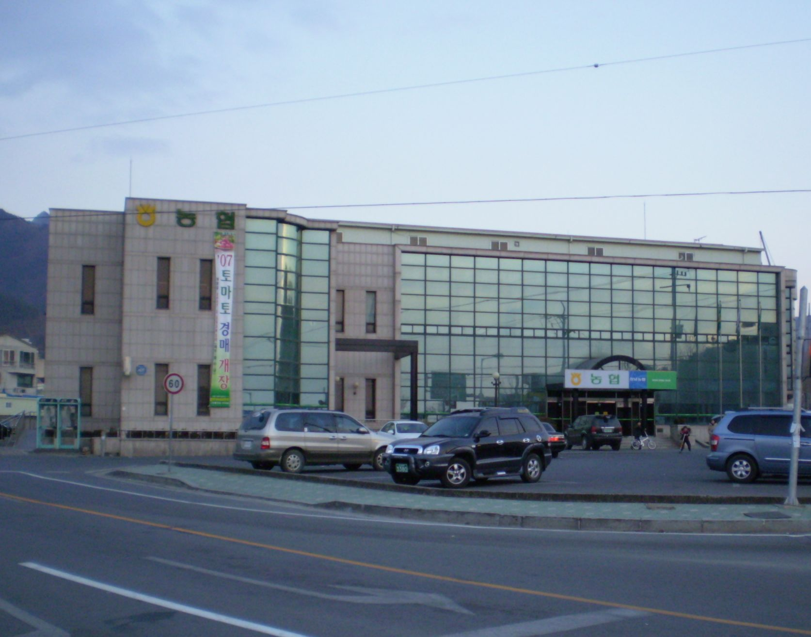 The local offices of Nong Hyup, the national agricultural cooperative, in Changnyeong, Gyeongsangnam-do, South Korea.